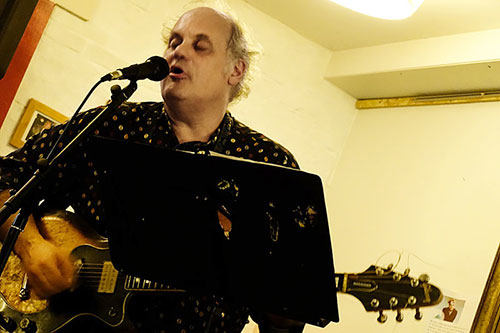 Eugene Chadbourne in Aarhus, Denamrk 2015